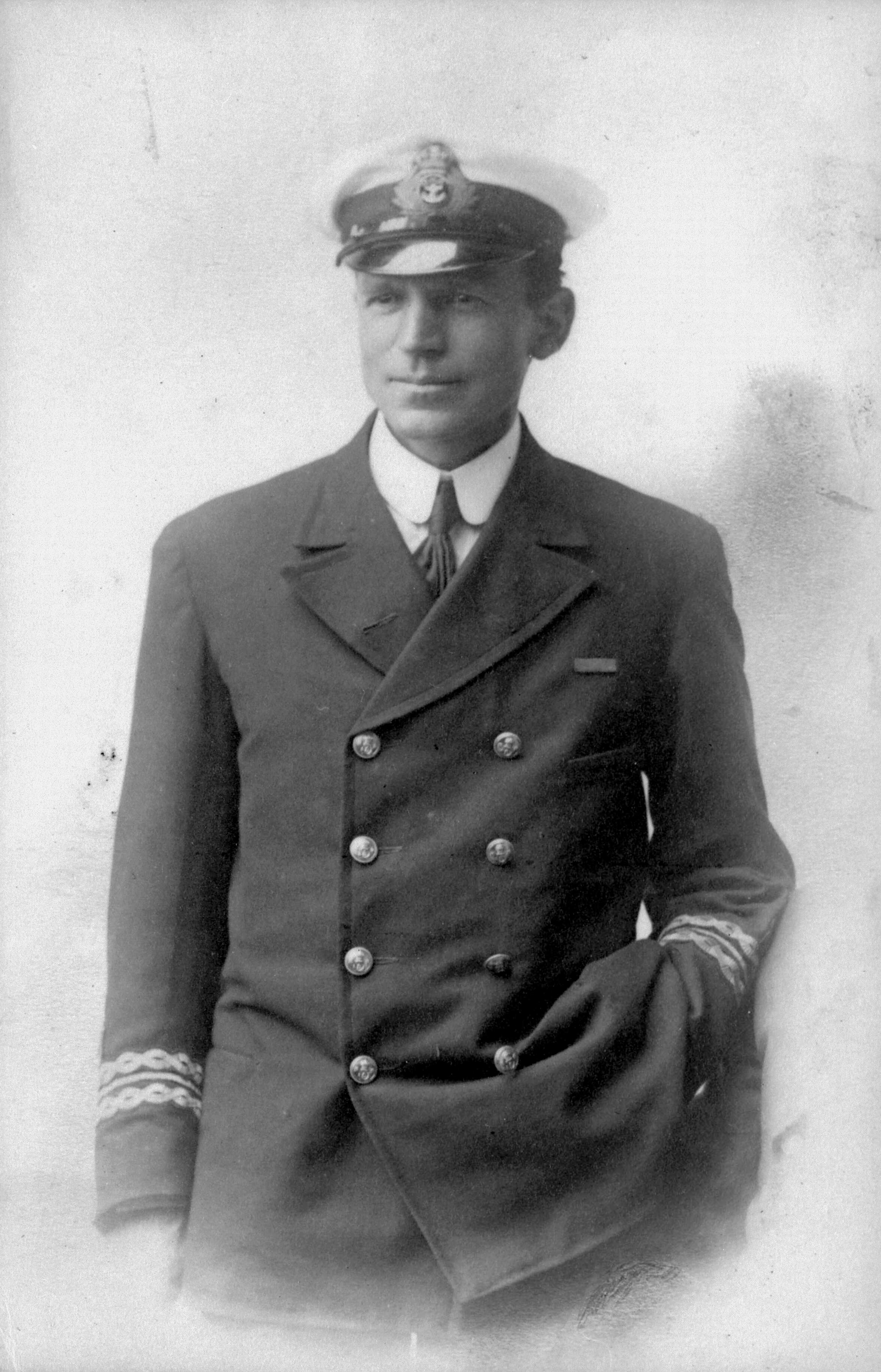 Lieutenant-Commander Frank Worsley, photographed ca 1917 by an unknown photographer. Frank Worsley. Smythe, P :Photographs of Frank Worsley. Ref: 1/2-182002-F. Alexander Turnbull Library, Wellington, New Zealand.